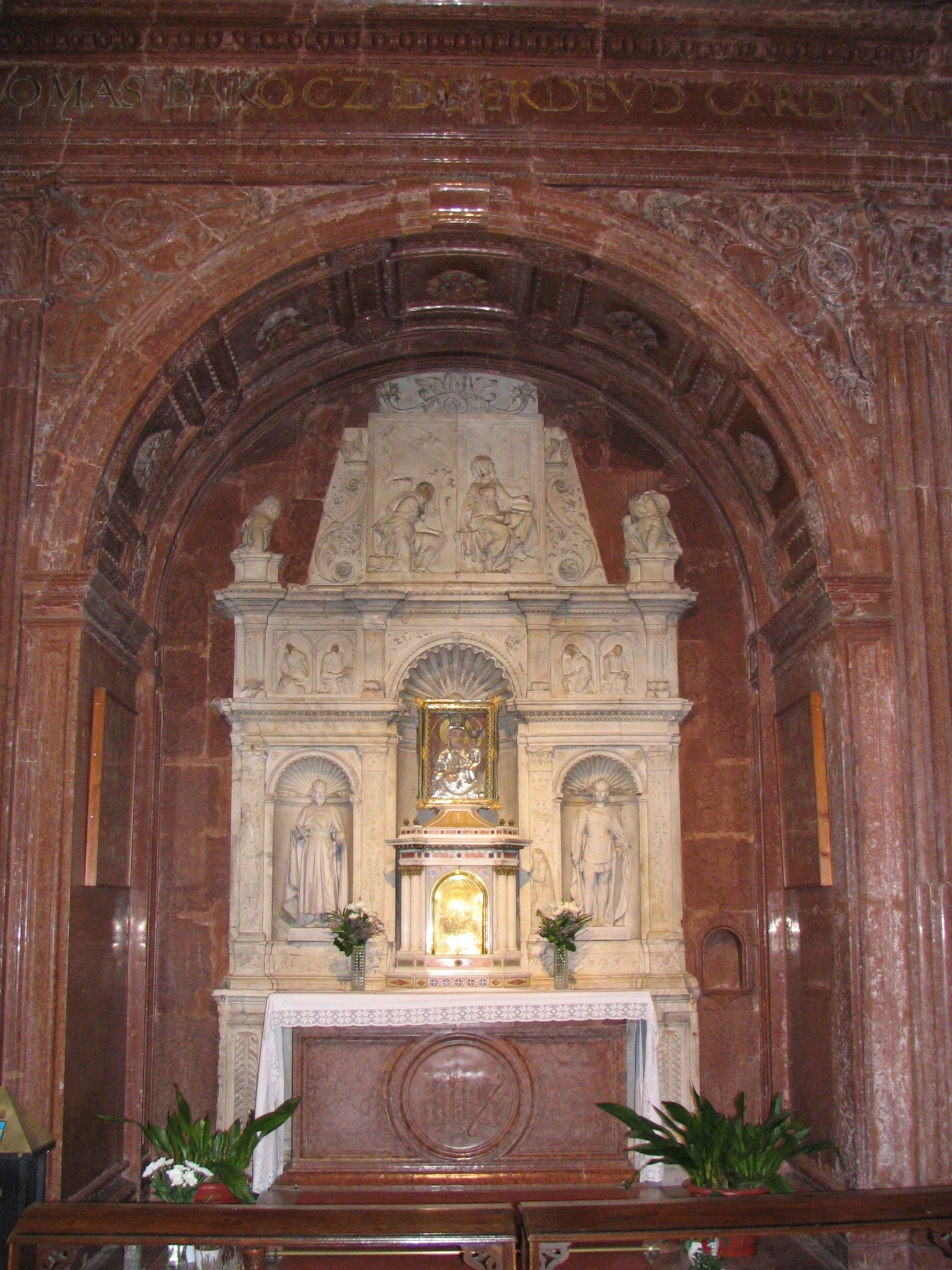 Bakócz Chapel in Esztergom Cathedral